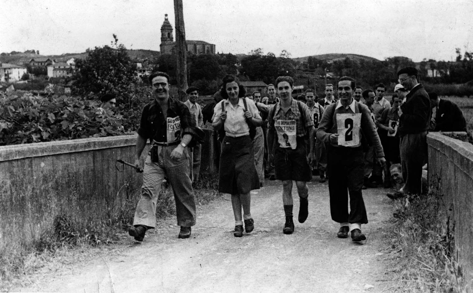 The first timed trekking organized by the Fortuna sport club of Donostia crossing the bridge of Zorrotze in Usurbil in 1941. The second from the right in the first row is Juan San Martin.